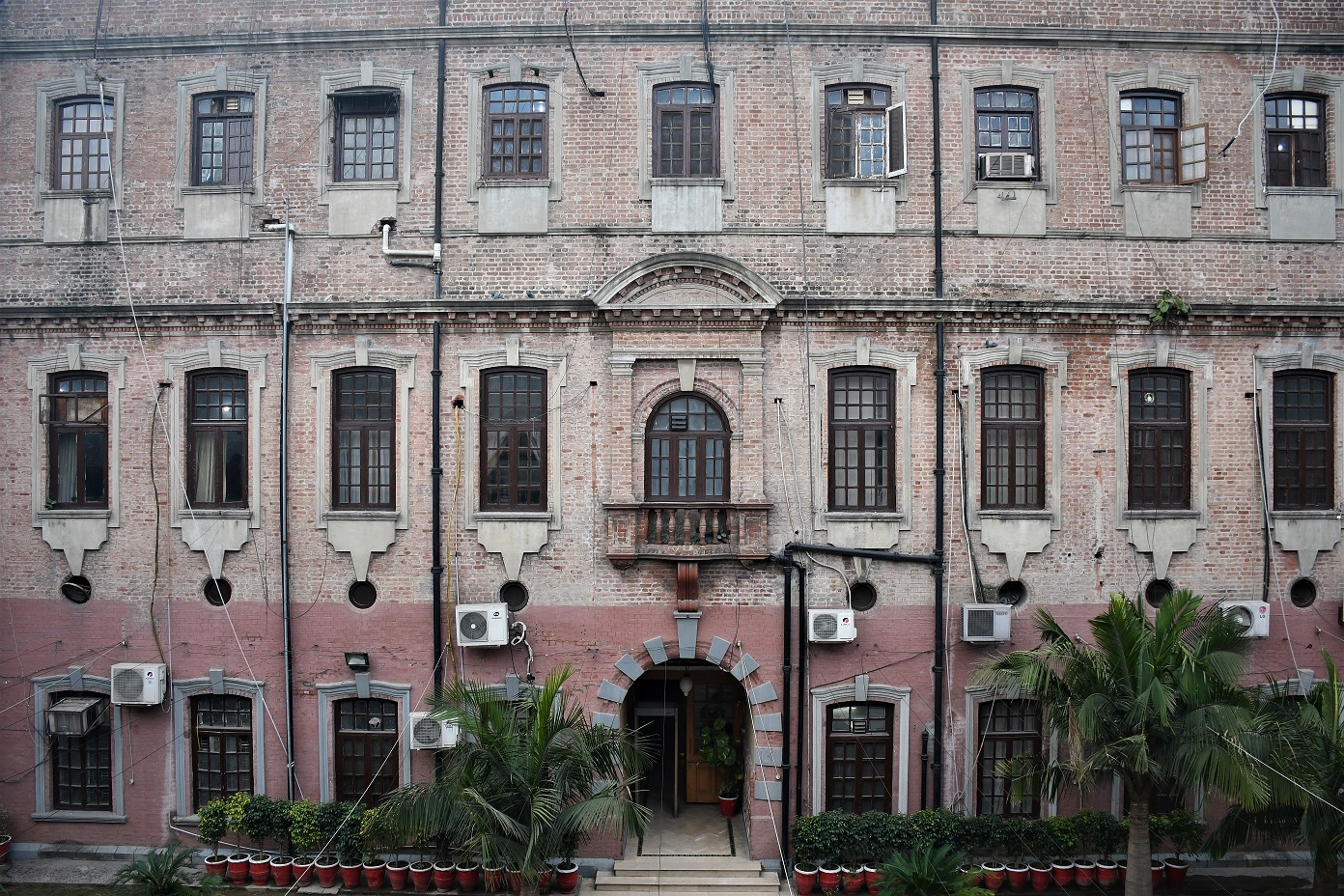 The main secretariat building of Punjab Irrigation in Old Anarkali, Lahore building was built in 19th century by the British.